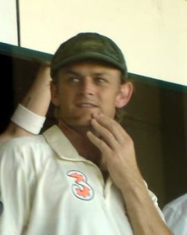 Crop of a photo taken by Daniel on Day 5 of the Adelaide Test match in the 2006-07 Ashes series .